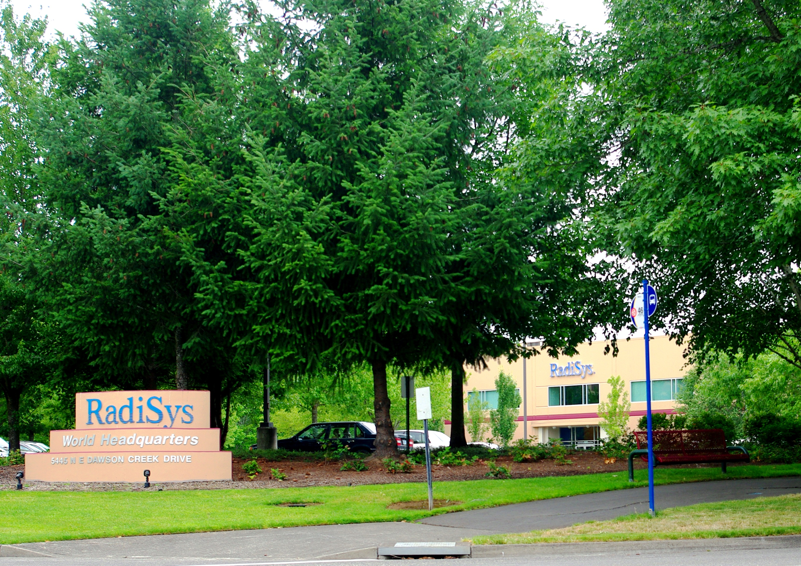 RadiSys HQ in Hillsboro, Oregon, USA.